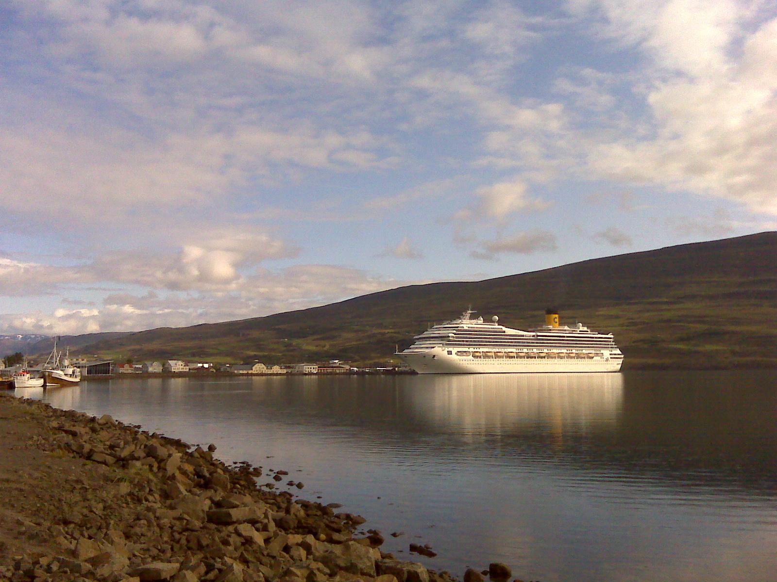 A cruise ship in the harbor, Akureyri, Iceland (August 2009)